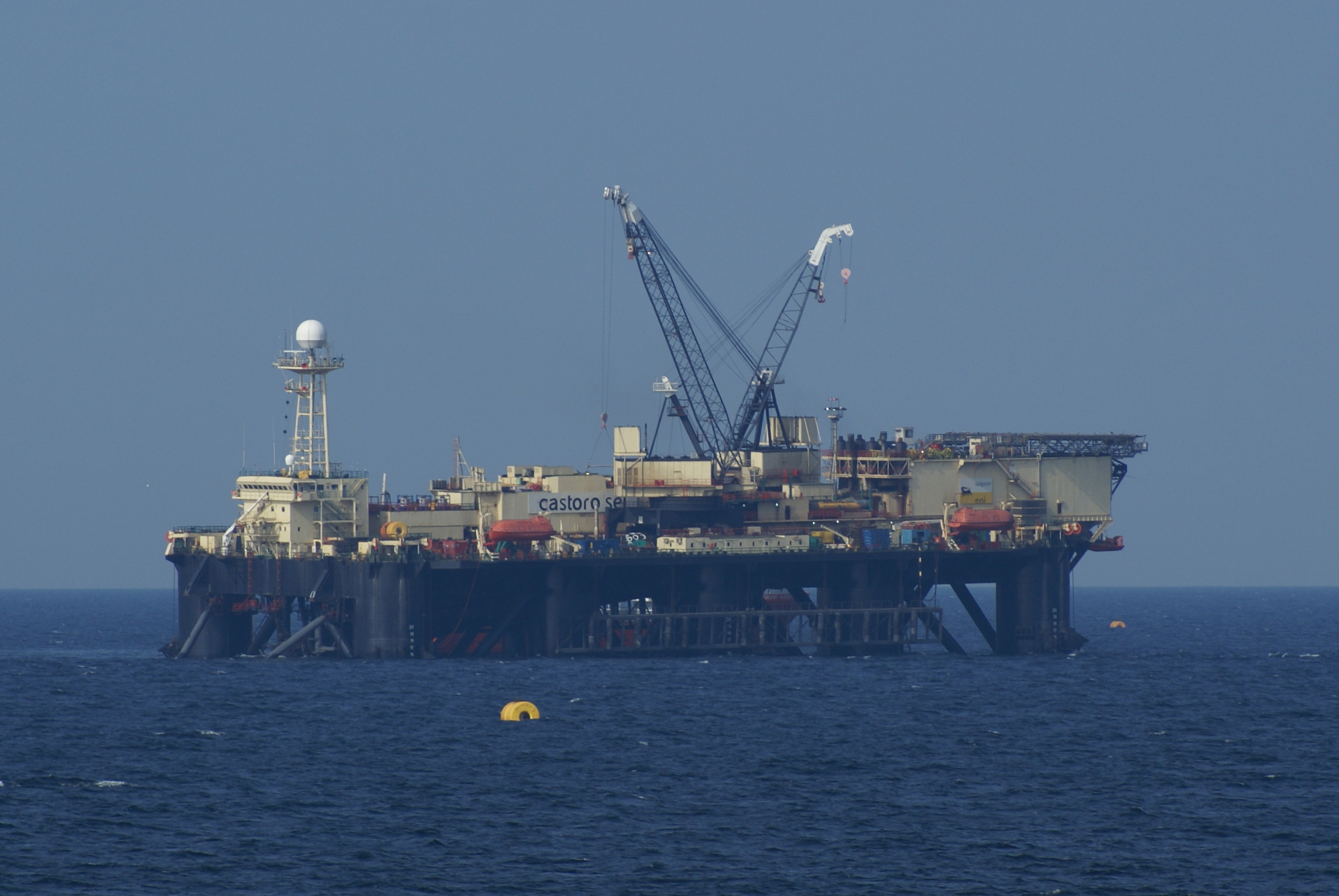 Castoro Sei semi-submersible on station in the Baltic Sea south-east of Gotland (Sweden) whilst pipe-laying for Nord Stream.